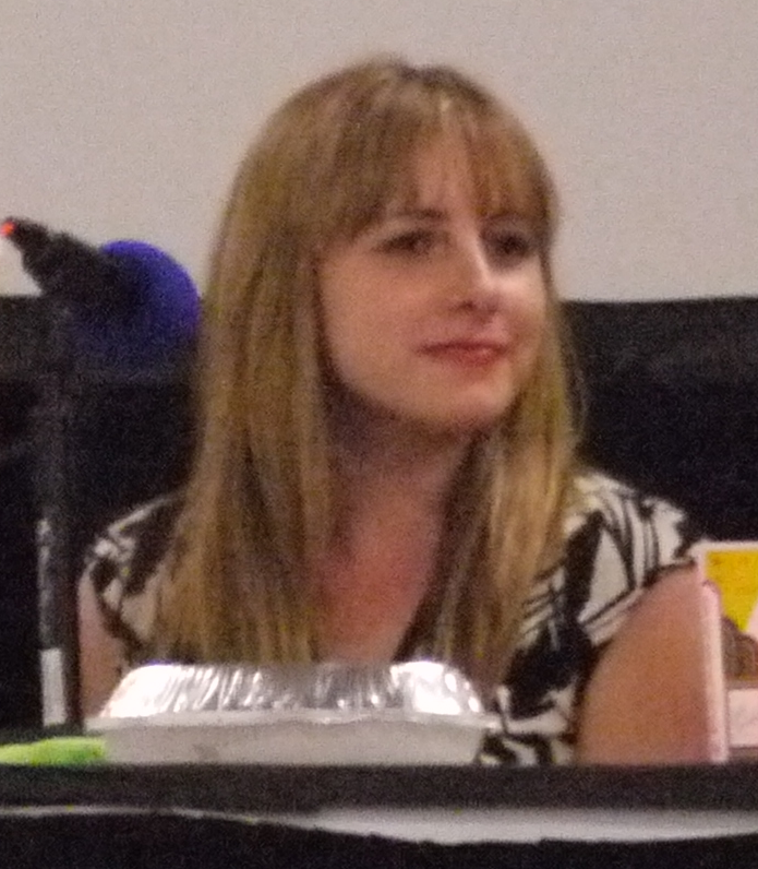 Andrea Libman at the 2012 Summer BronyCon